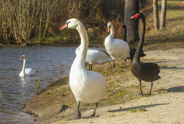 Black and white swans on the lake park (Poltava, Ukraine)